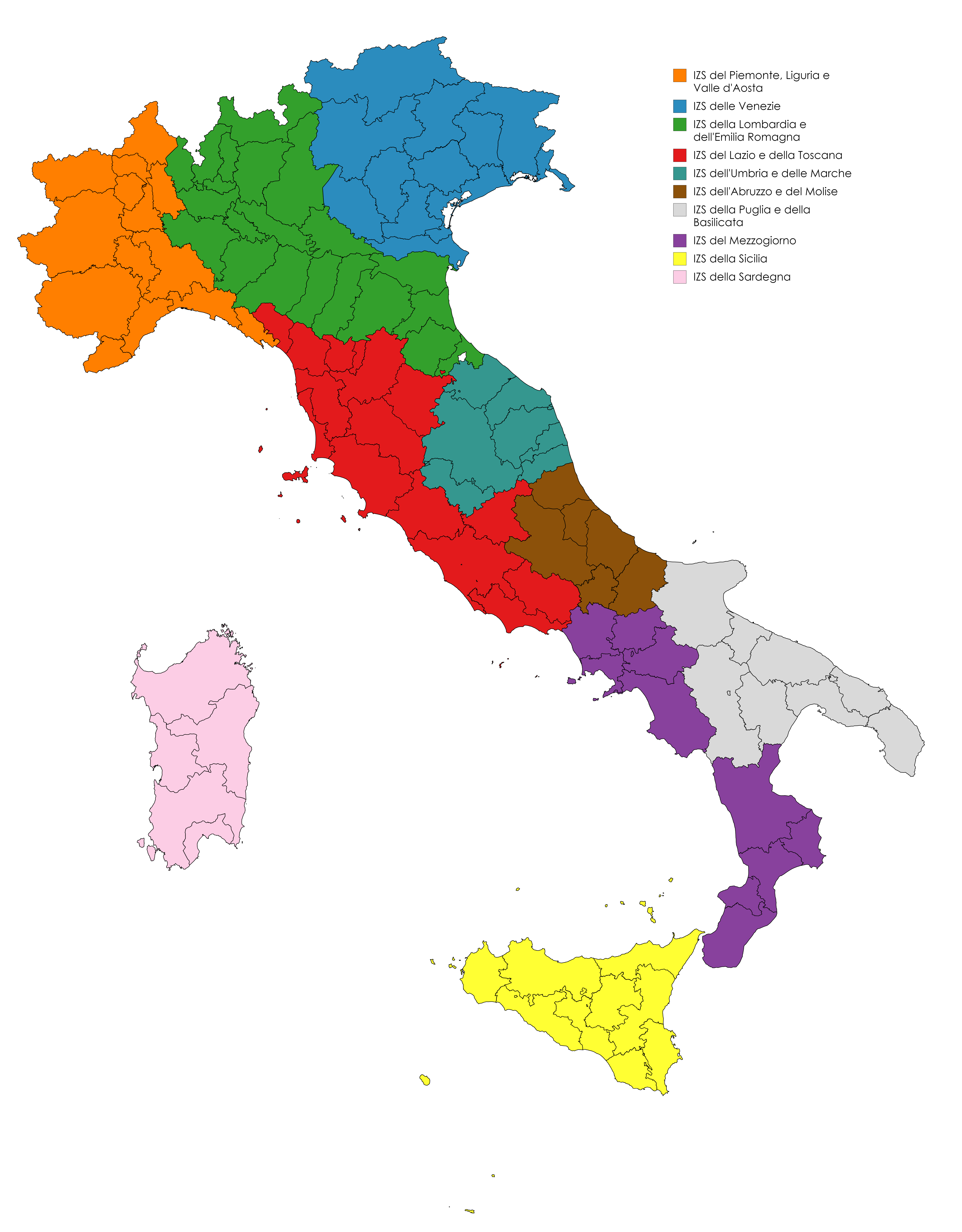 Territorial competences of the Experimental Zooprophylactic Institutes (Italy)